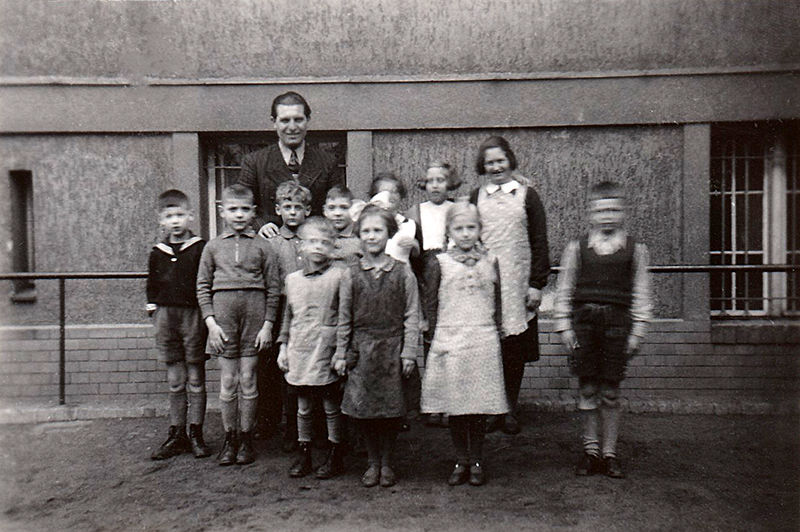 Kando Kandov in Berlin 1937-38